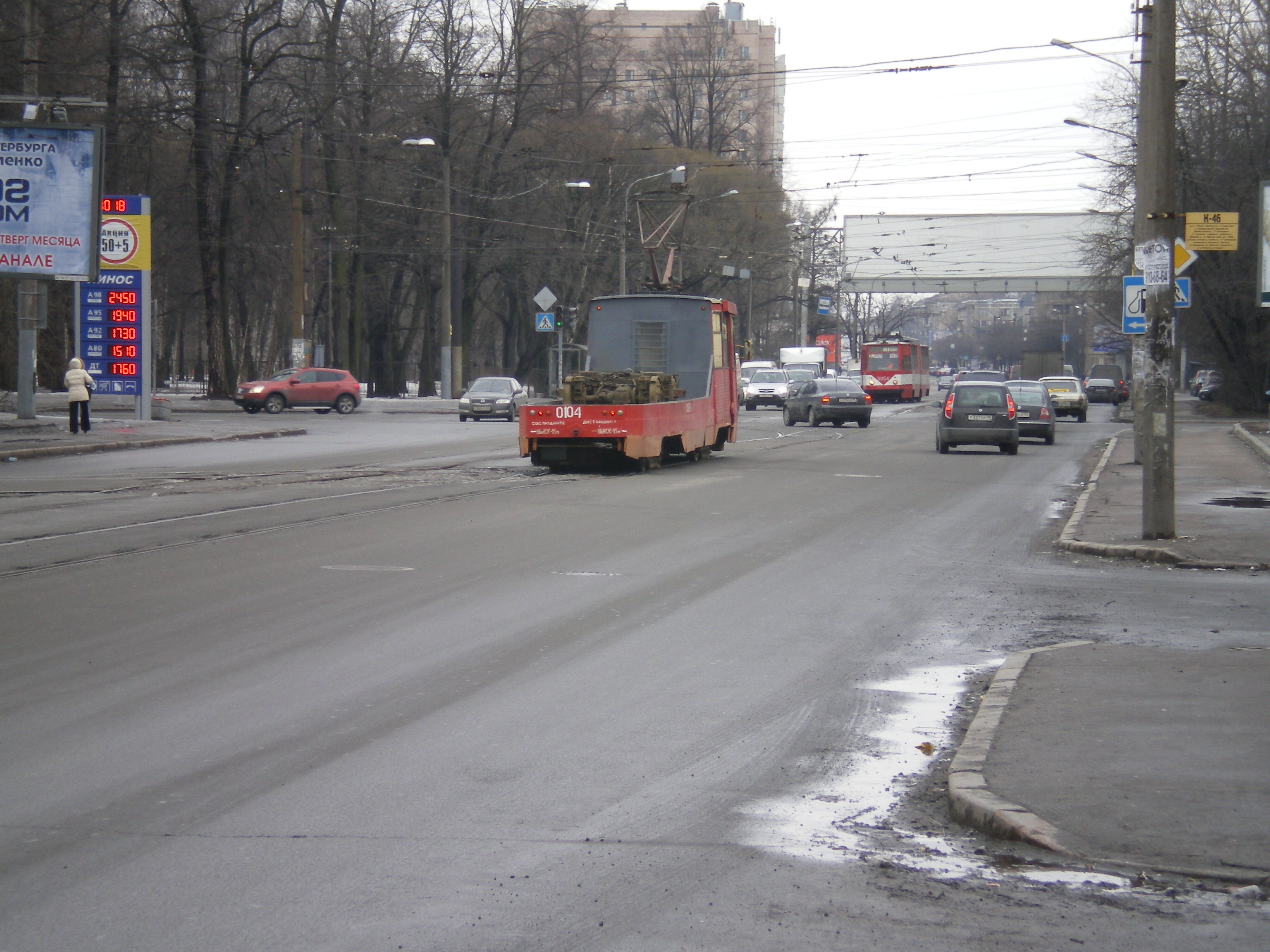 Cargo KTM-5 in Saint Petersburg